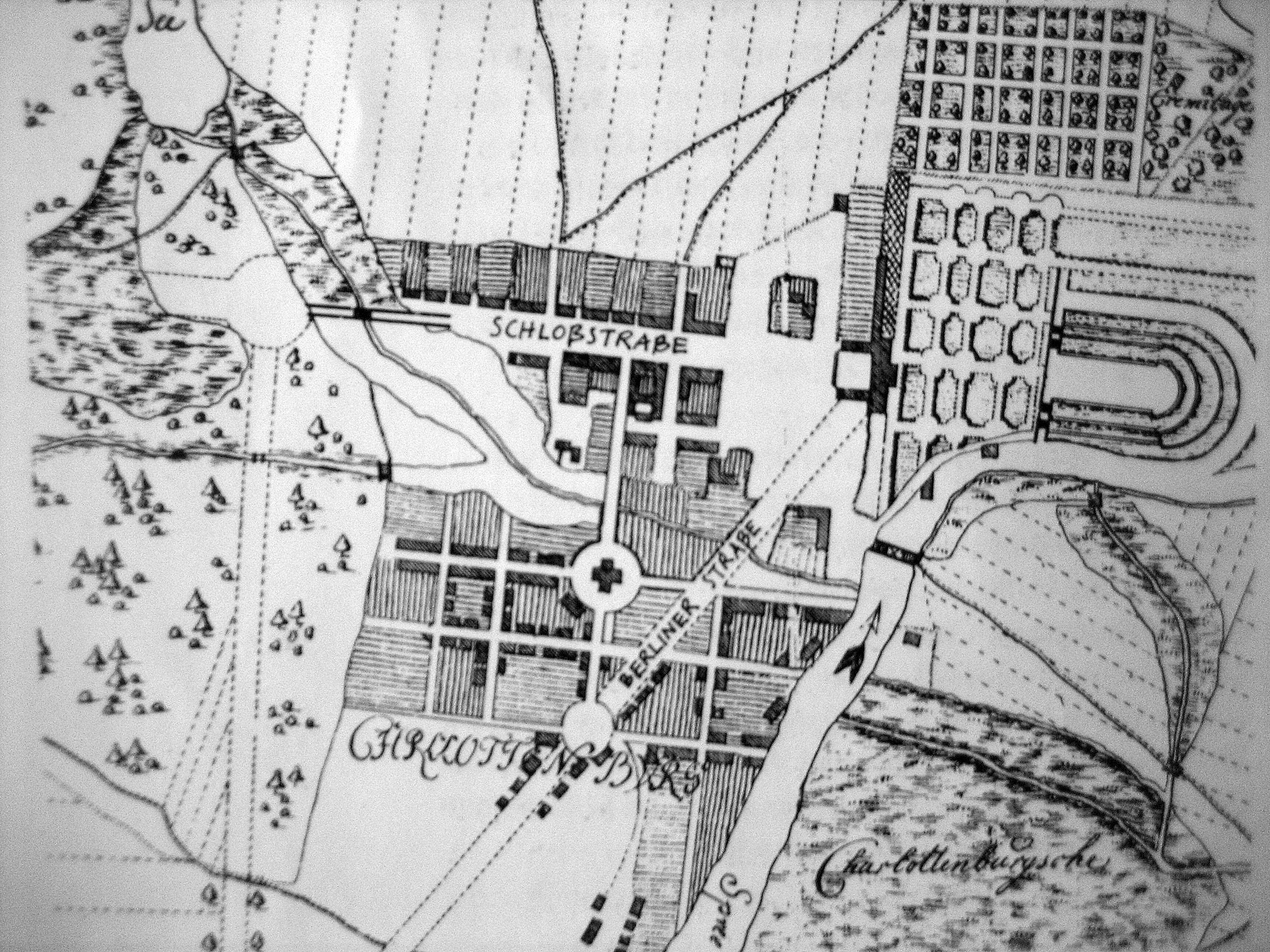 Map of ancient city Charlottenburg near Berlin projected by Eosander von Göte by Conrath Henning 1719 (detail). The right part of the castle had been planned but not yet realized. Particular. West on top.